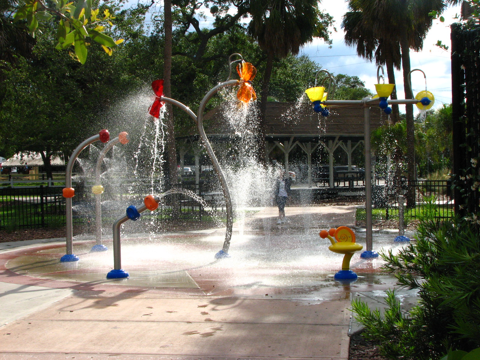 Water Fountain Play Area at Ballast Point Park